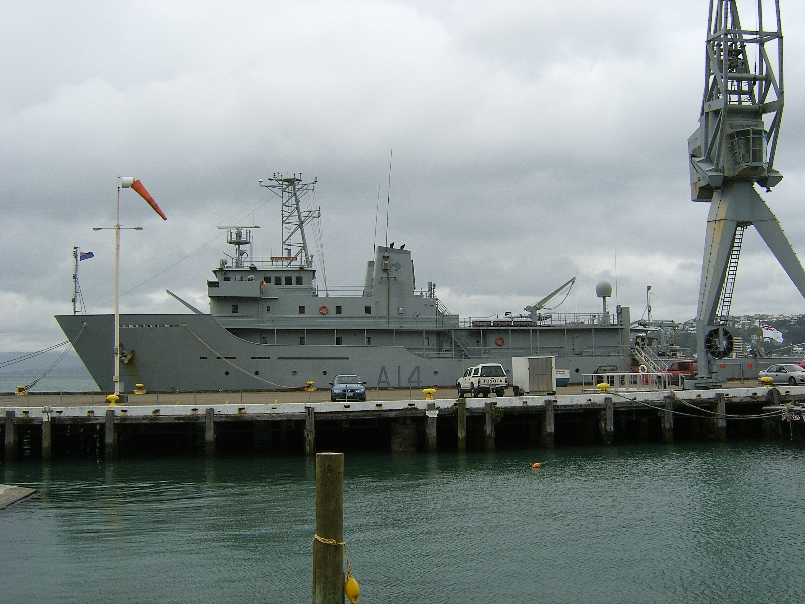 HMNZS Resolution docked at Wellington, New Zealand.